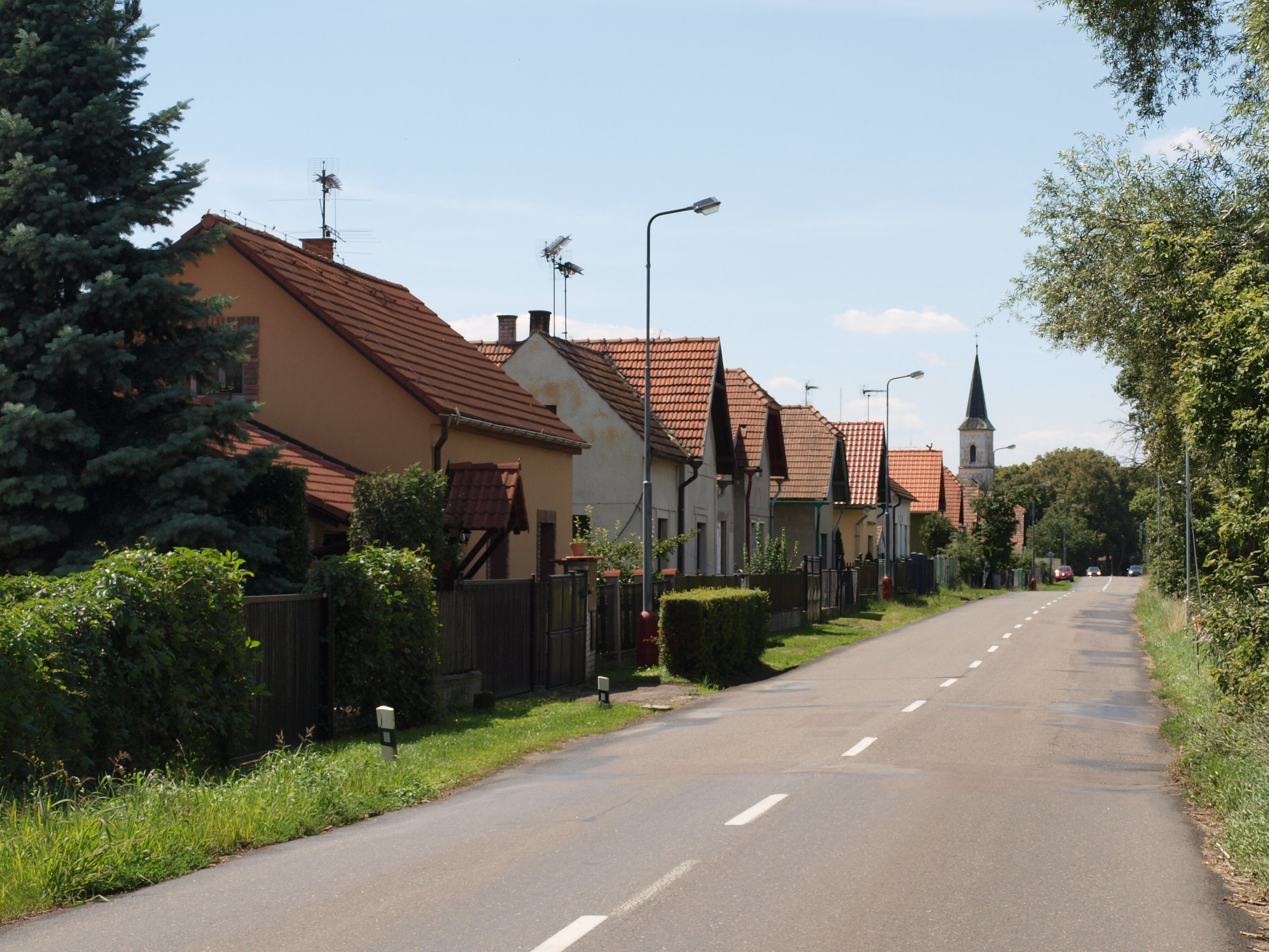 Road from Rašovice towards Budiměřice, Budiměřice, Nymburk District, Central Bohemian Region